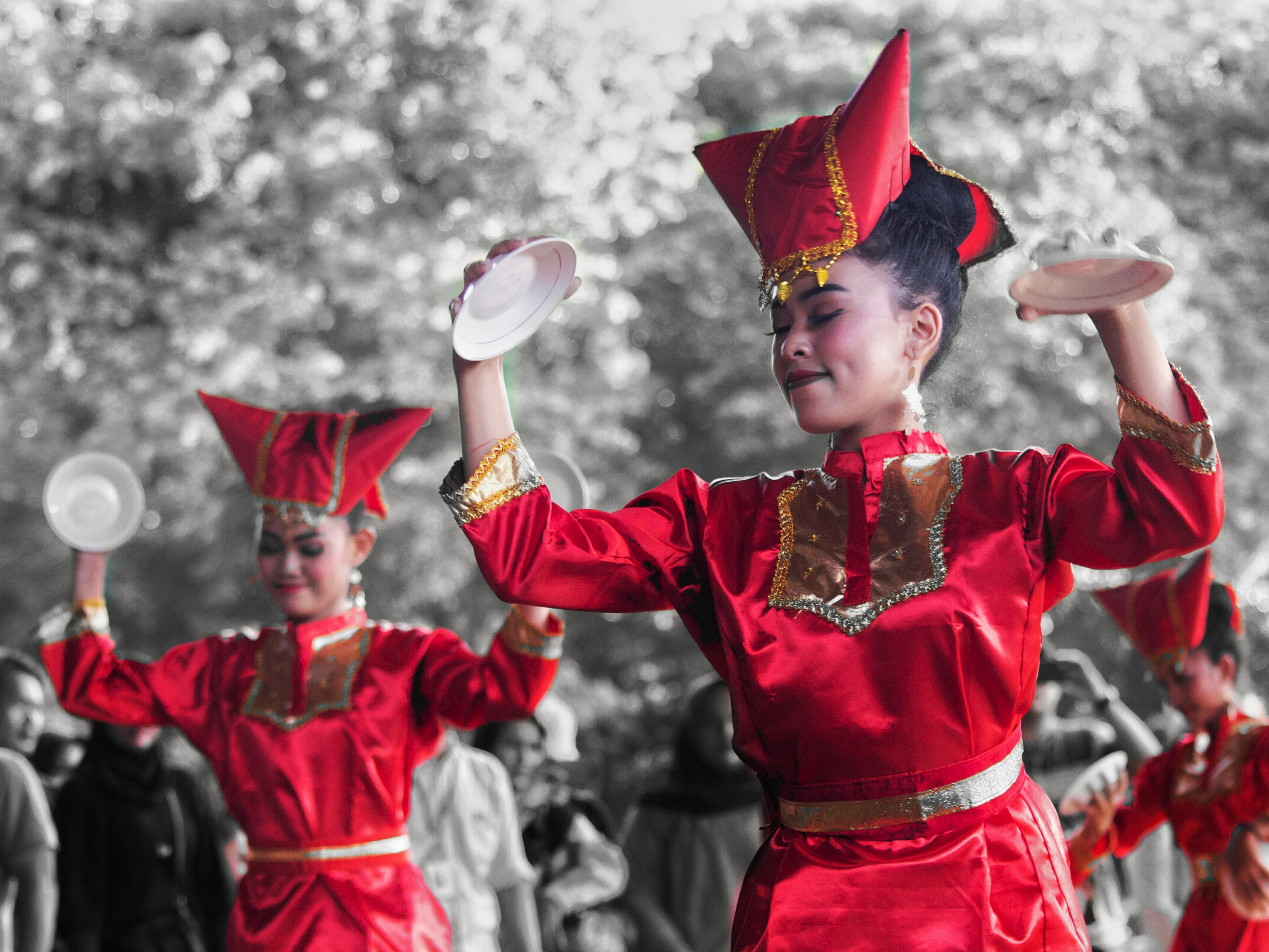 plate dance